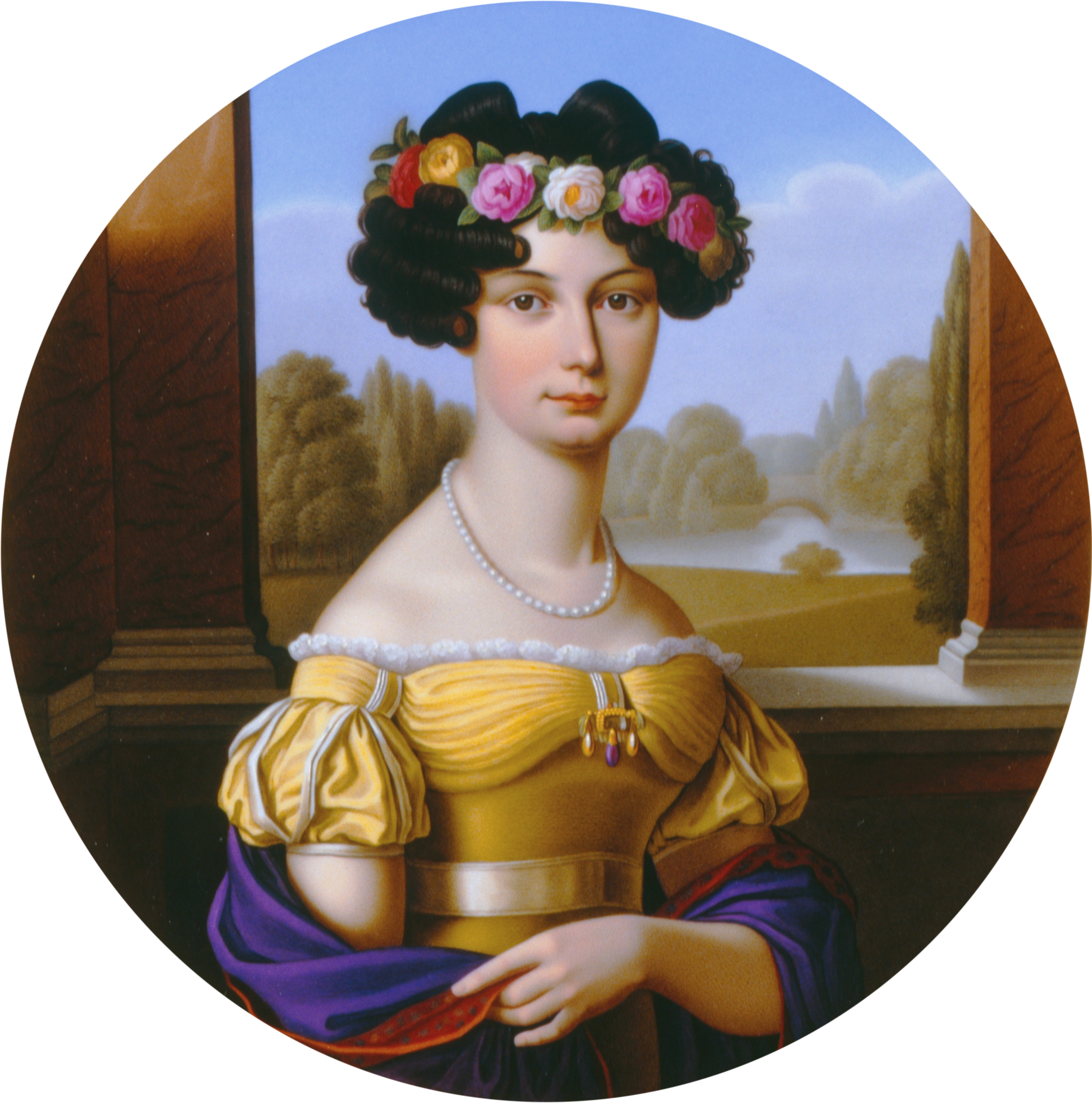 Auguste Princess von Liegnitz, Auguste von Harrach (1800–1873) porcelain